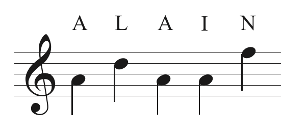 musical theme based on the letters of (Jehan) ALAIN